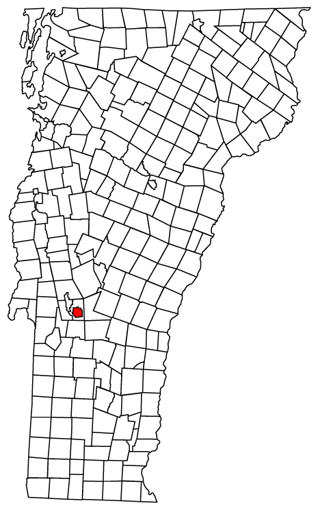 Description: Map of Vermont towns with Rutland City highlighted. Source: Map created by Jared C. Benedict on 02 March 2004. Copyright: © Jared C. Benedict.